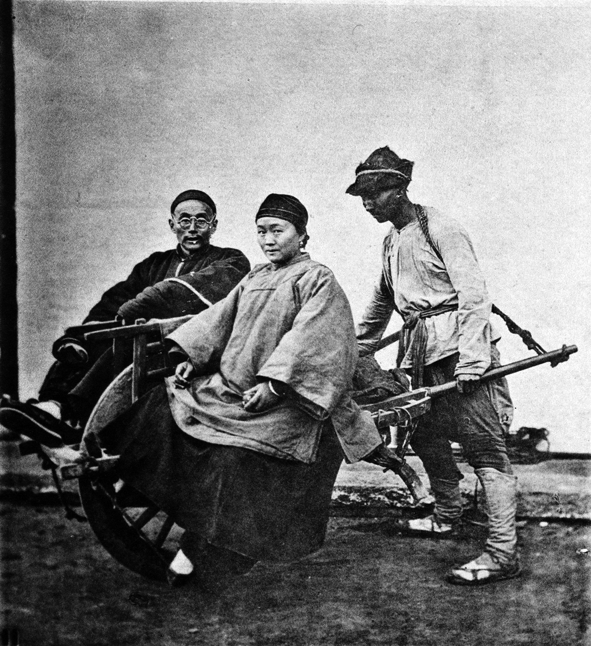 Photograph by John Thomson. See detail on the Wikisource link below.